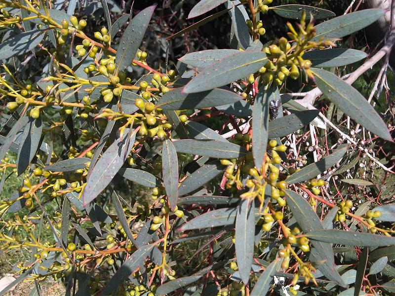 Eucalyptus dalrympleana fruits and leaves in Kew Gardens, England.